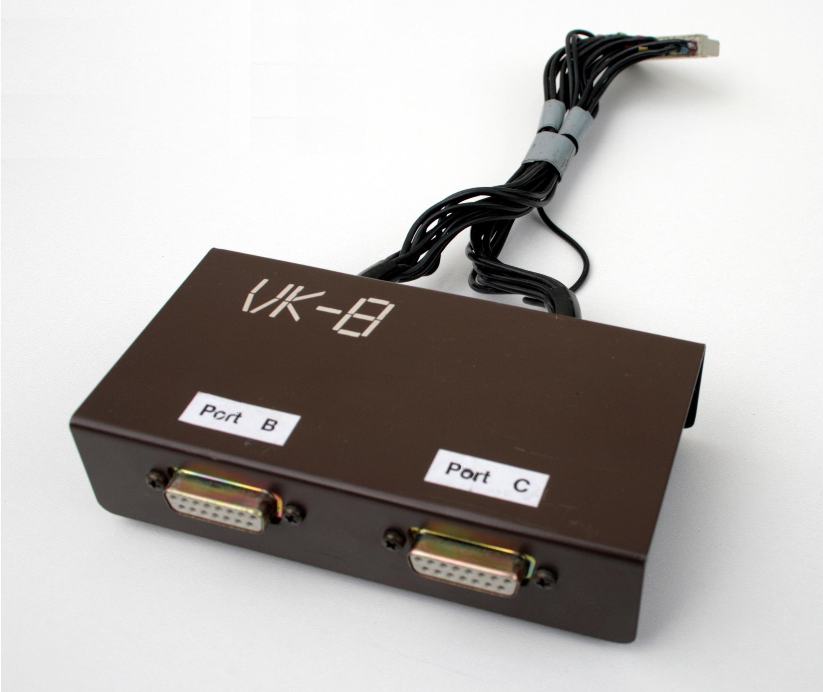 connecting device for Profi-5 microcomputer family